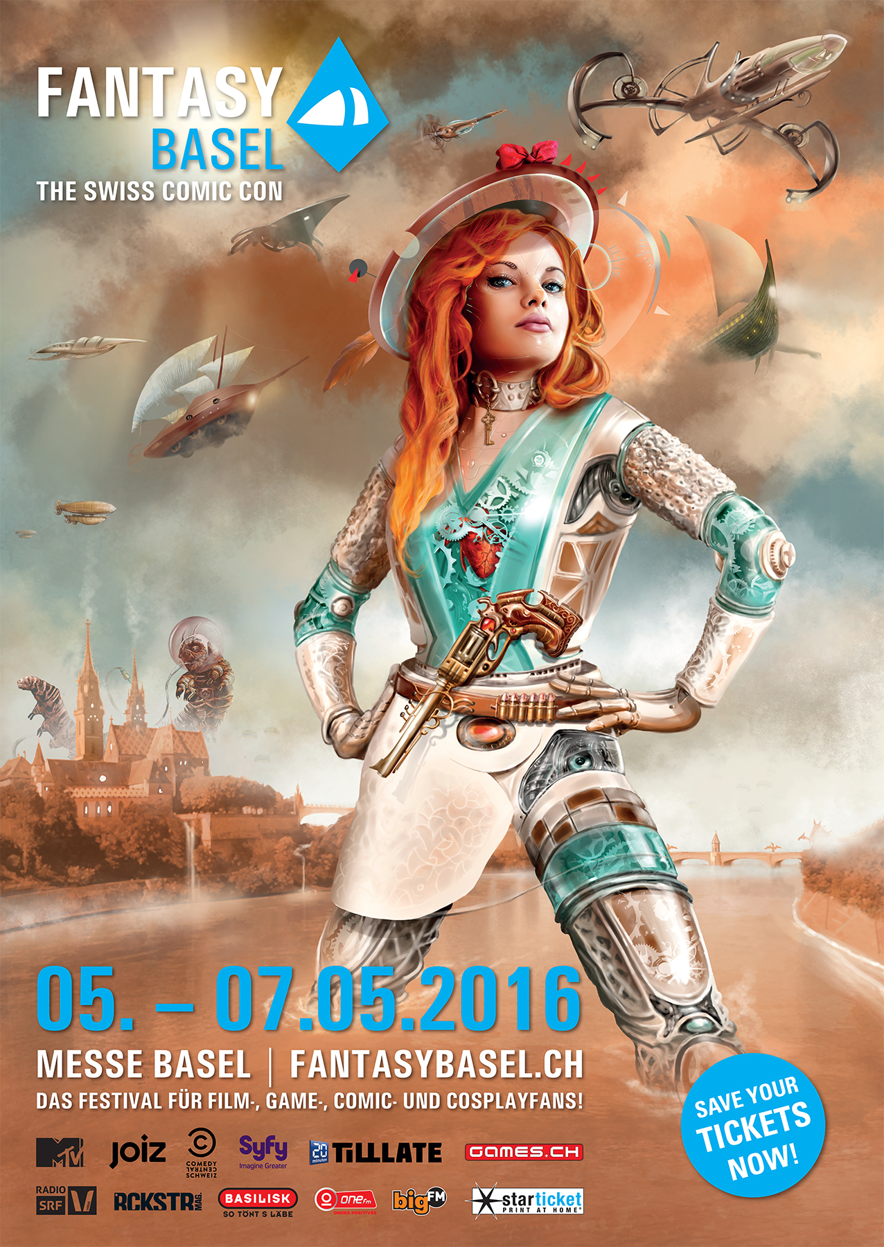 Visual: FANTASY BASEL - The Swiss Comic Con 2016 by Maurizio Manzieri